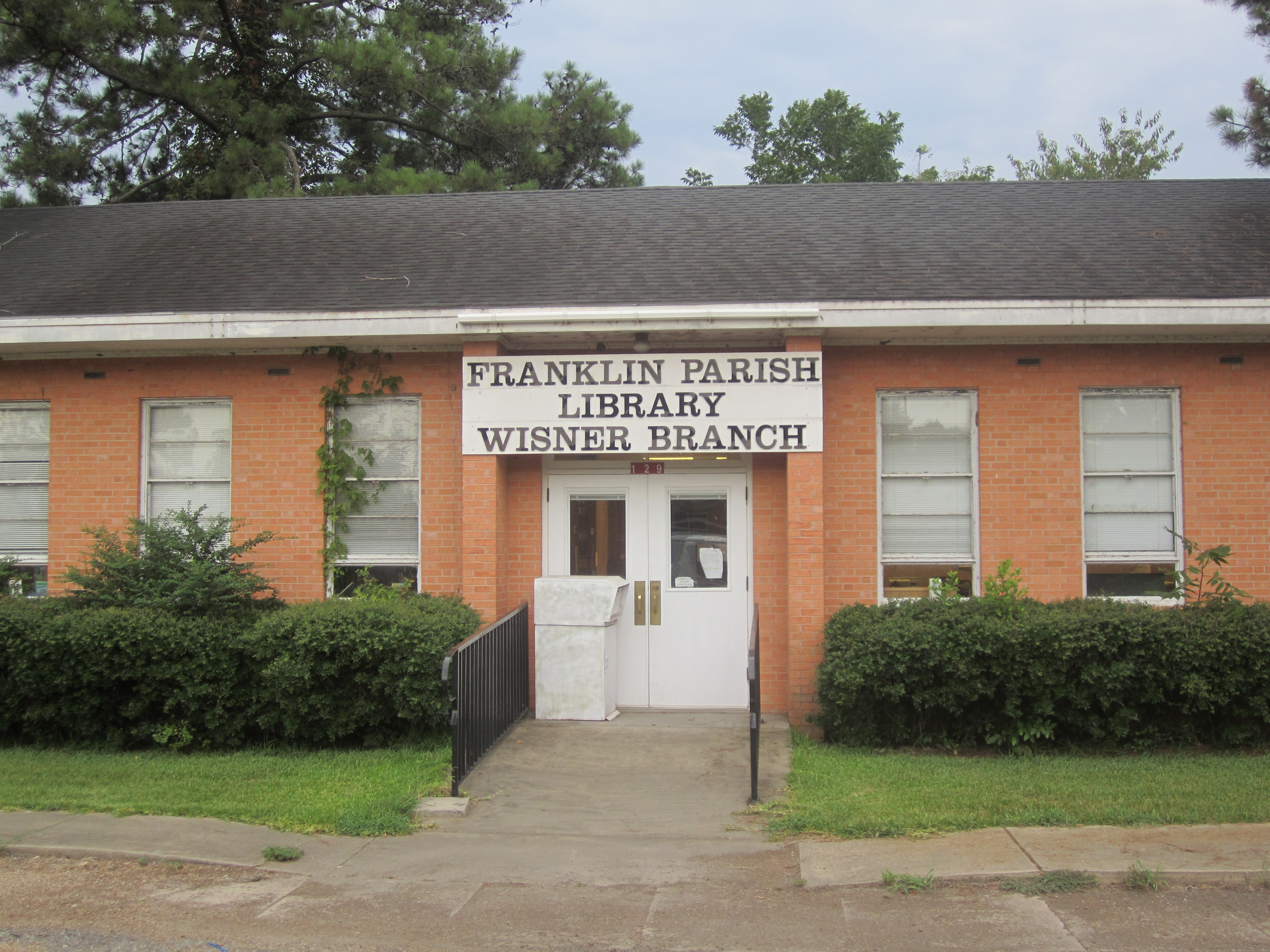 I took photo of Franklin Parish Library in Wisner.